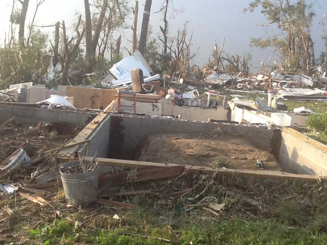 EF4 damage to a house near Wakefield, Nebraska.